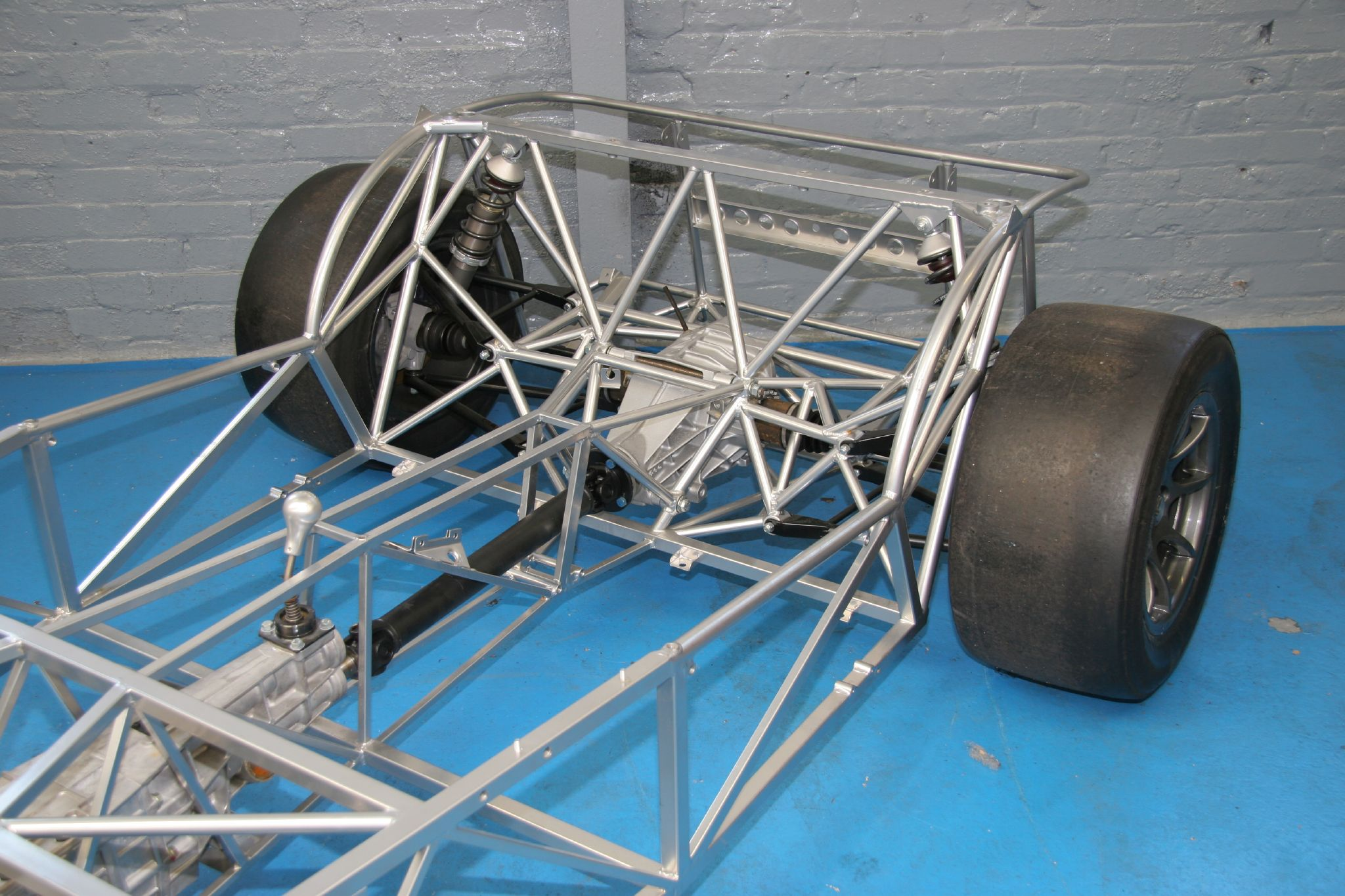 Caterham 7 at Caterham's showroom